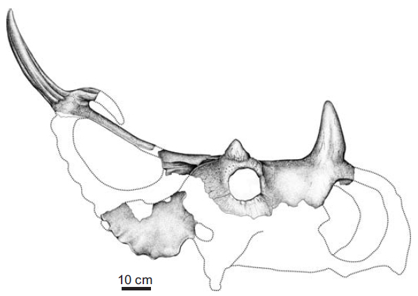 Reconstruction of the skull of Spinops sternbergorum gen. et sp. nov. from the Campanian of Dinosaur Provincial Park, southern Alberta, in right lateral view. Preserved elements are stippled; missing portions are dotted and modeled after Centrosaurus apertus.